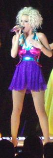 Sarah Harding performing with Girls Aloud at the O2 Arena in London